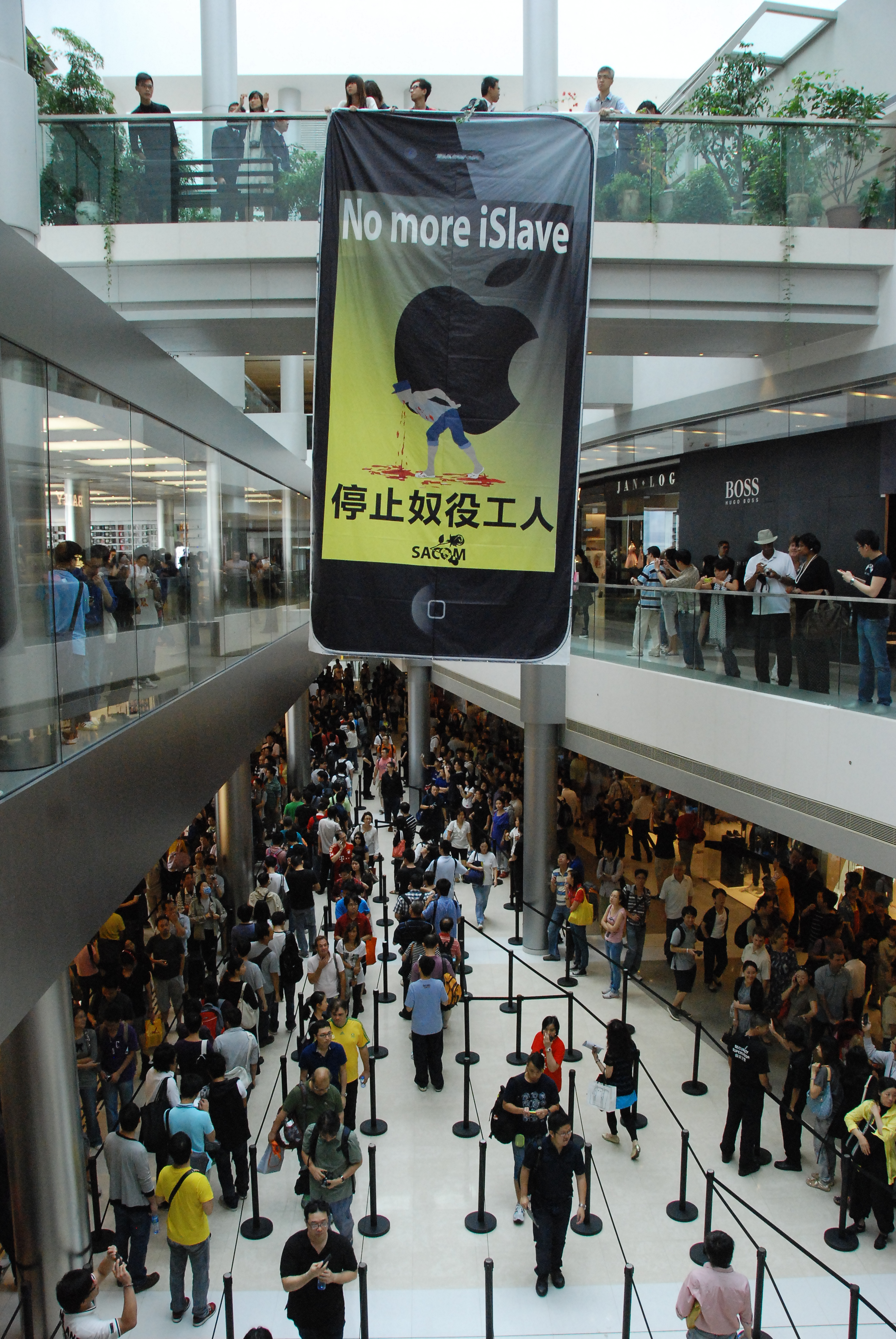 Protest outside the new Apple Store in Hong Kong for ignoring its suppliers‘ severe labor abuse issues.中文（中国大陆）: 于香港新开幕的苹果专卖店外，抗议苹果对其代工厂的工人剥削视而不见。